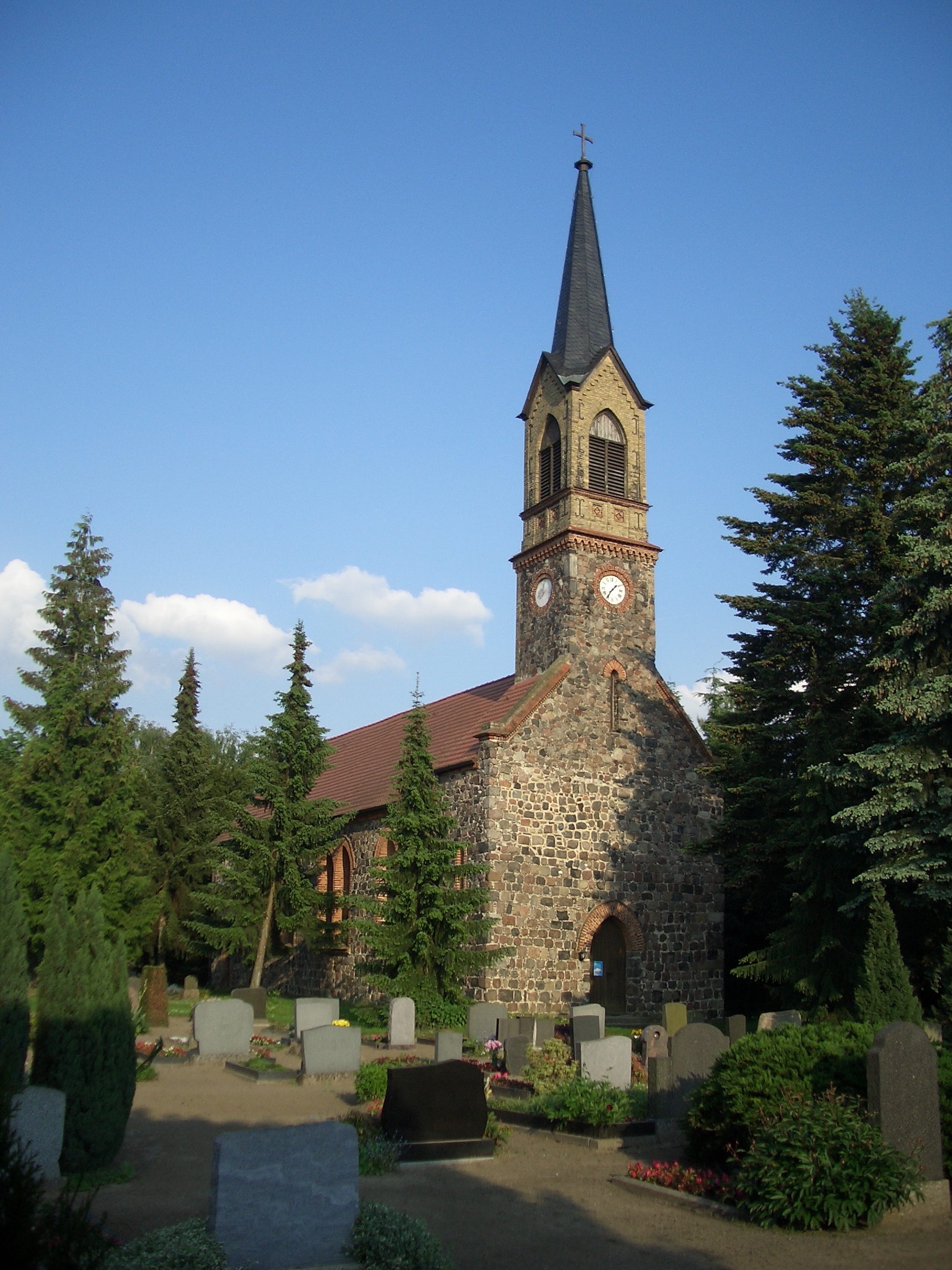 Listed Fieldstone church in Stücken. The church was destroyed by fire in 1848 and 1860 rebuilt in neo-Gothic style by the use of some remaind medieval stones. Stücken is a part of Michendorf in the district Potsdam-Mittelmark, state Brandenburg, Germany.